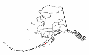 Adapted from Wikipedia's AK borough maps by Seth Ilys.